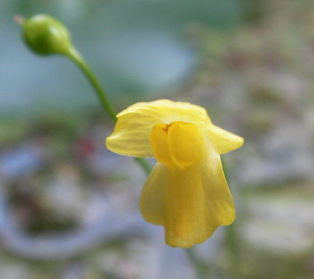 Utricularia gibba 's Flower